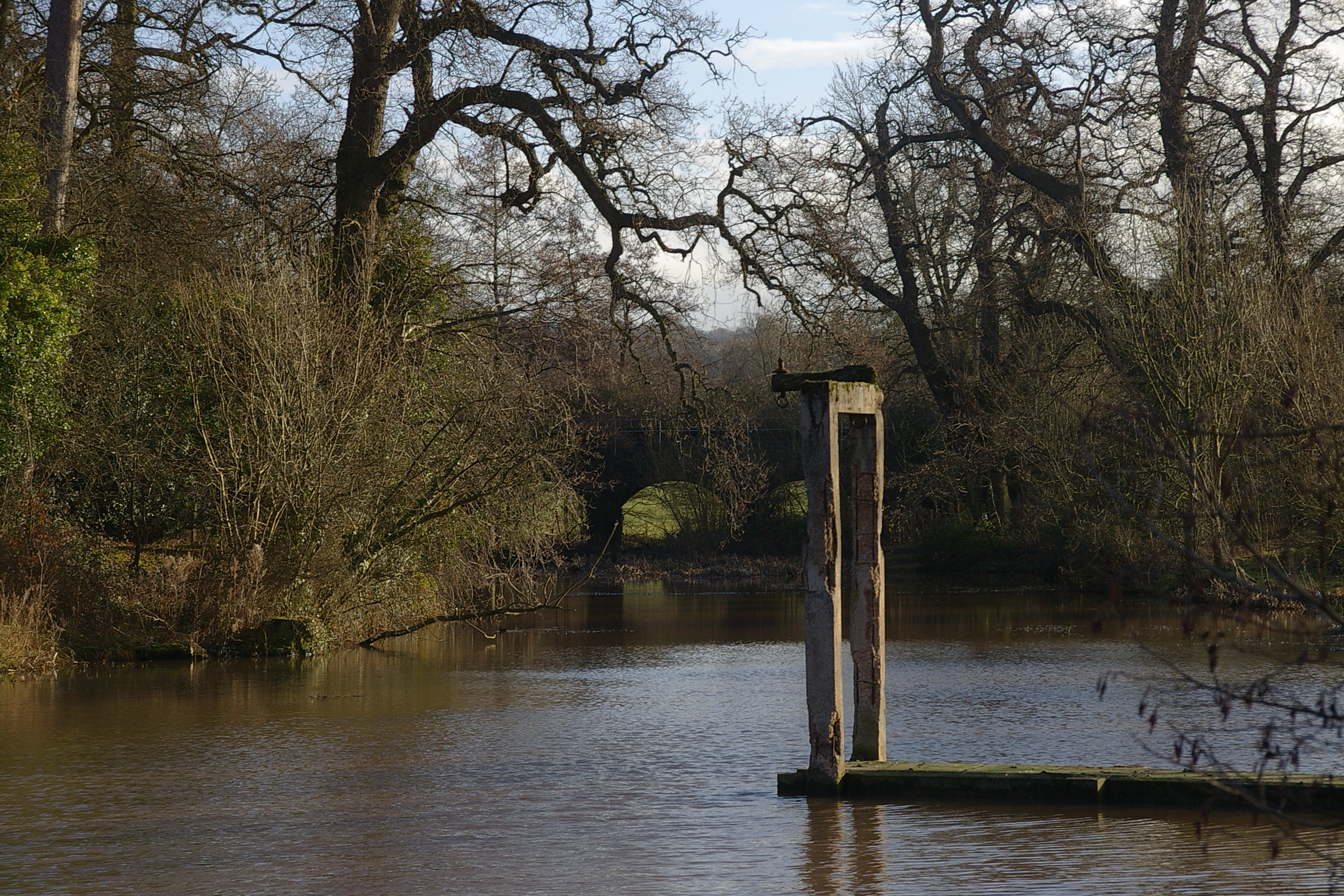 Ham Green Lake near the site of the old Ham Green Halt on the Portishead Branchline. The Halt is the bridge in the background.